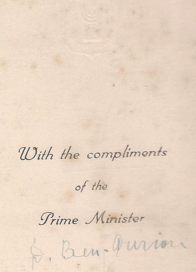 Autograph from Personal Collection